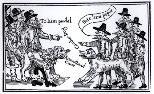 Page from the royalist propaganda pamphlet A Dialogue, or Rather a Parley Between Prince Ruperts Dogge Whose Name is Puddle, and Tobies Dog Whose Name is Pepper issued in London c. 1643. The pamphlet is a fictional dialogue between a cavalier and a royalist dog, meant to parody the conflicts of the English Civil War. The royalist dog probably represents Boy, the dog of Prince Rupert and a popular subject of royalist propaganda at the time